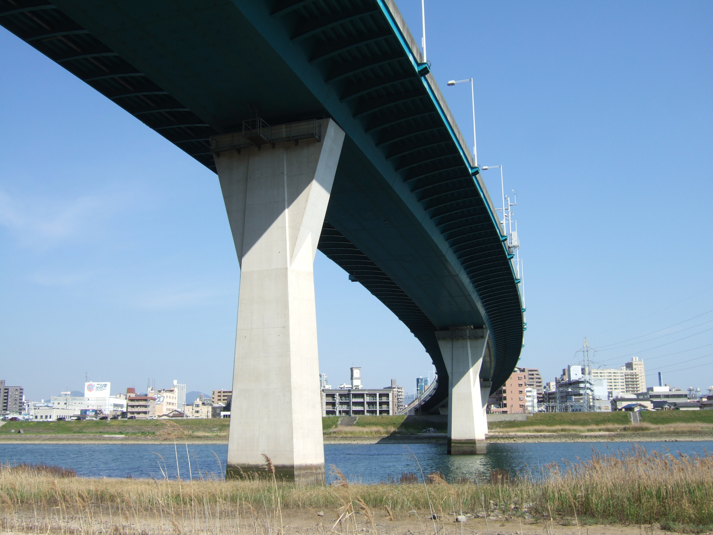 Hiroshima West Big Bridge laid in Ohta River Diversion Cannel (Hiroshima Expressway 4)